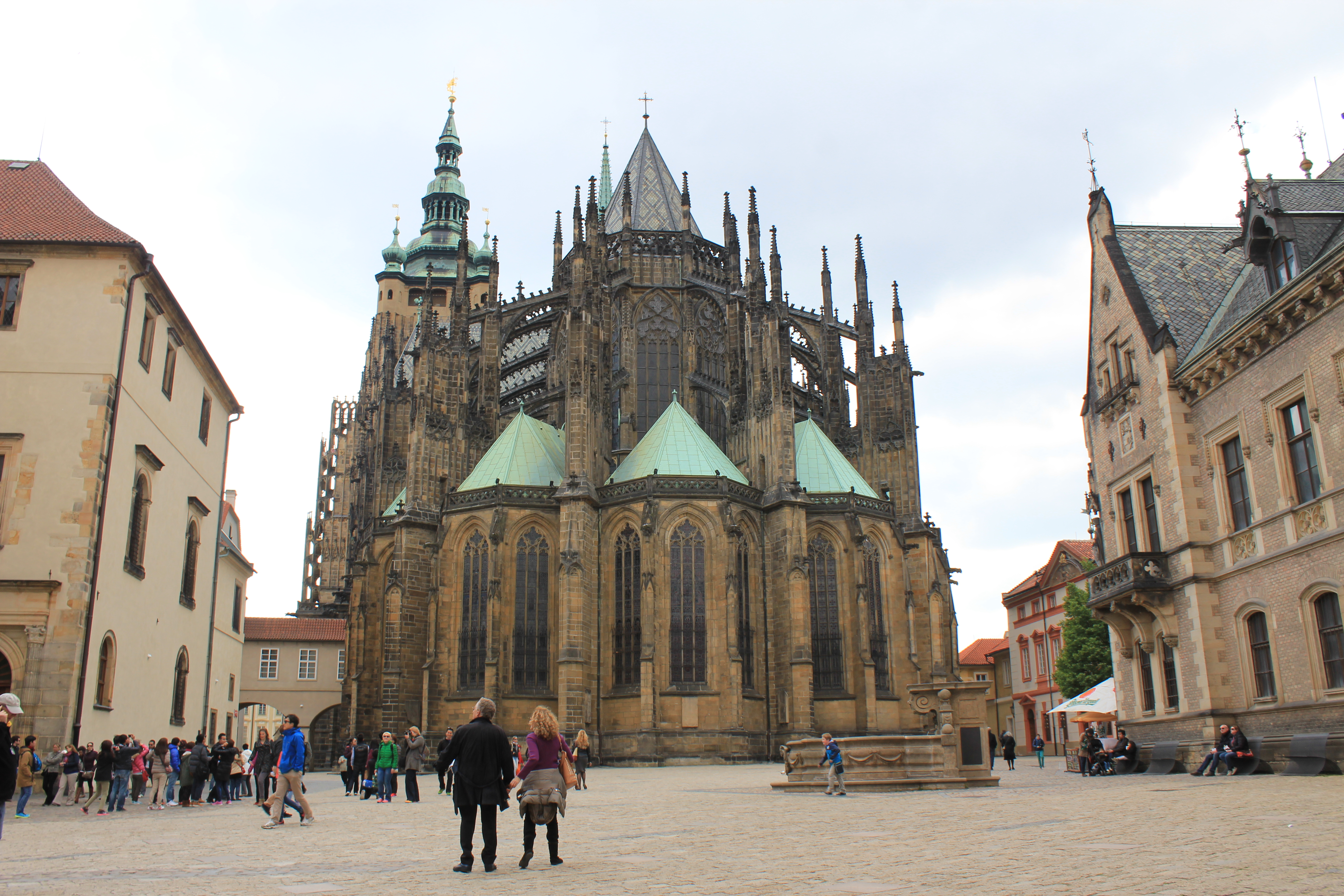 St. Vitus cathedral